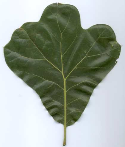 Quercus marilandica (Blackjack Oak)